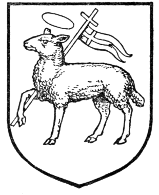 Fig. 398.—Paschal lamb.